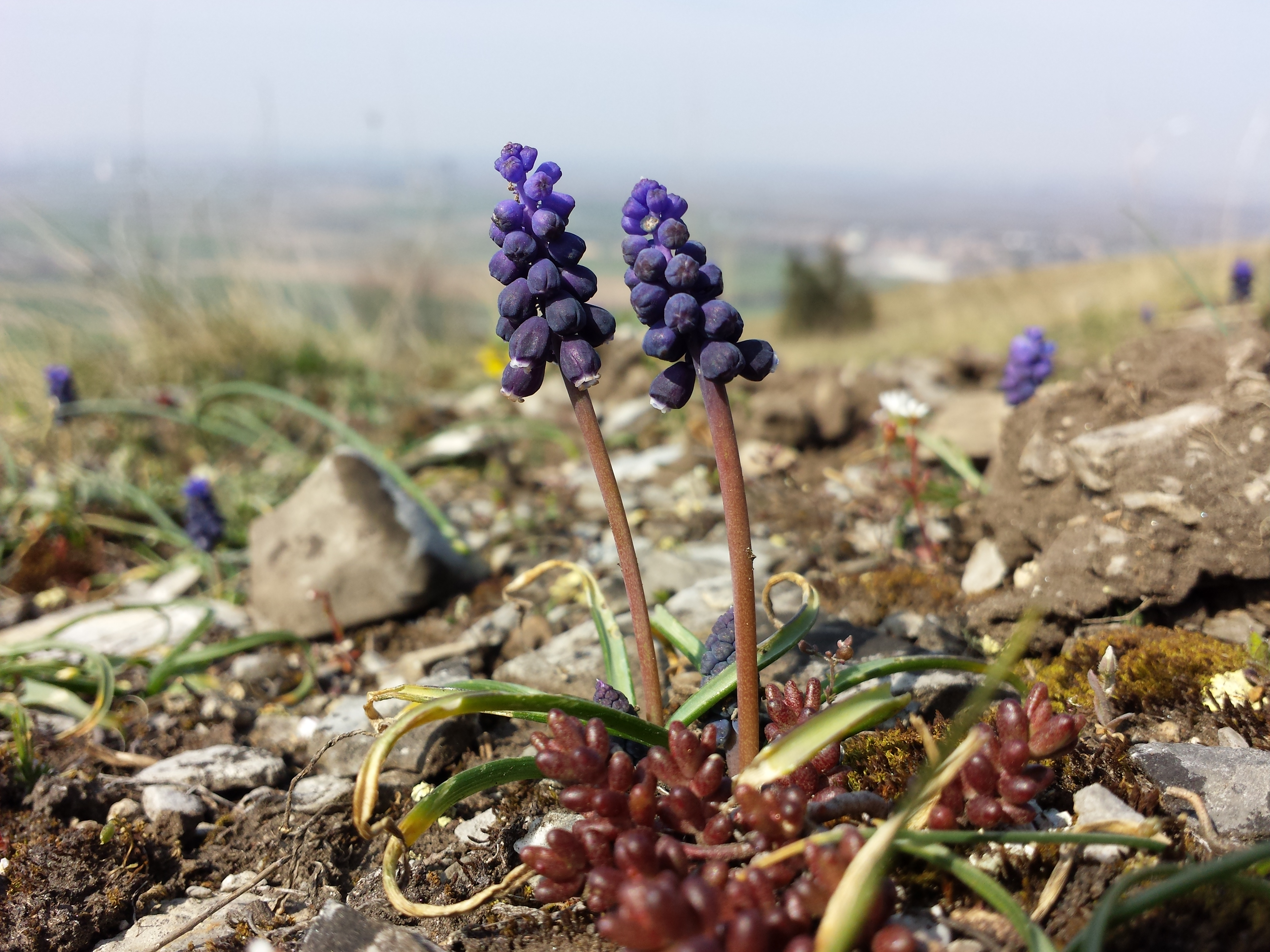 Habitus Taxonym: Muscari neglectum ss Fischer et al. EfÖLS 2008 ISBN 978-3-85474-187-9 Location: Hexenberg (Hundsheimer Berge), district Bruck an der Leitha, Lower Austria - ca. 400 m a.s.l. Habitat: dry grassland